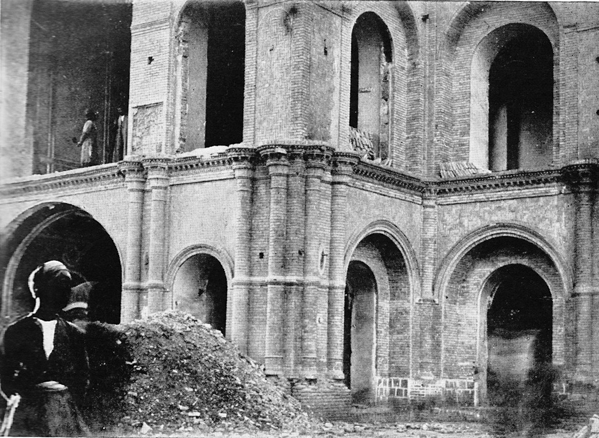 The Majlis parliament building after the bombardement by the Cossack Brigade under the command of Colonel Liakhoff — Tehran, Iran, Constitutional Revolution and Qajar dynasty — 1908.